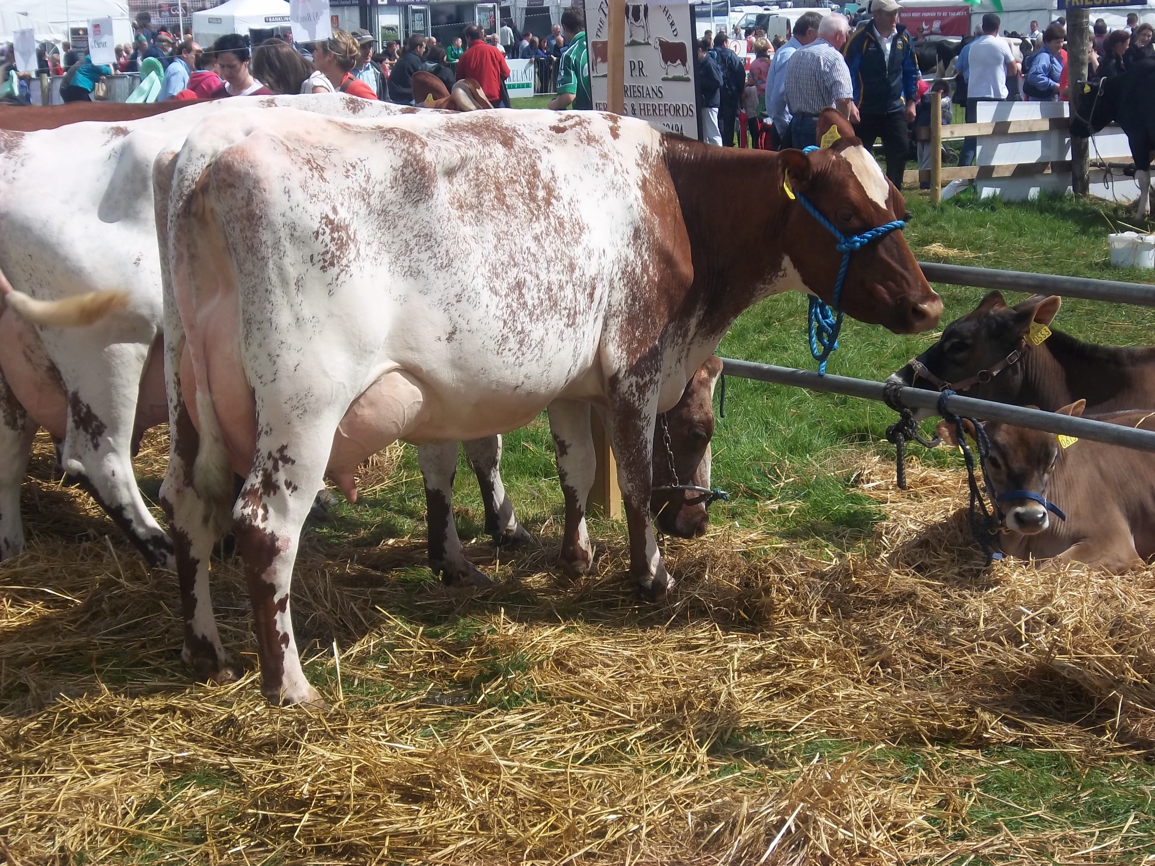 Dairy Shorthorn cow at Tullamore Show, County Offaly, Ireland, 2012